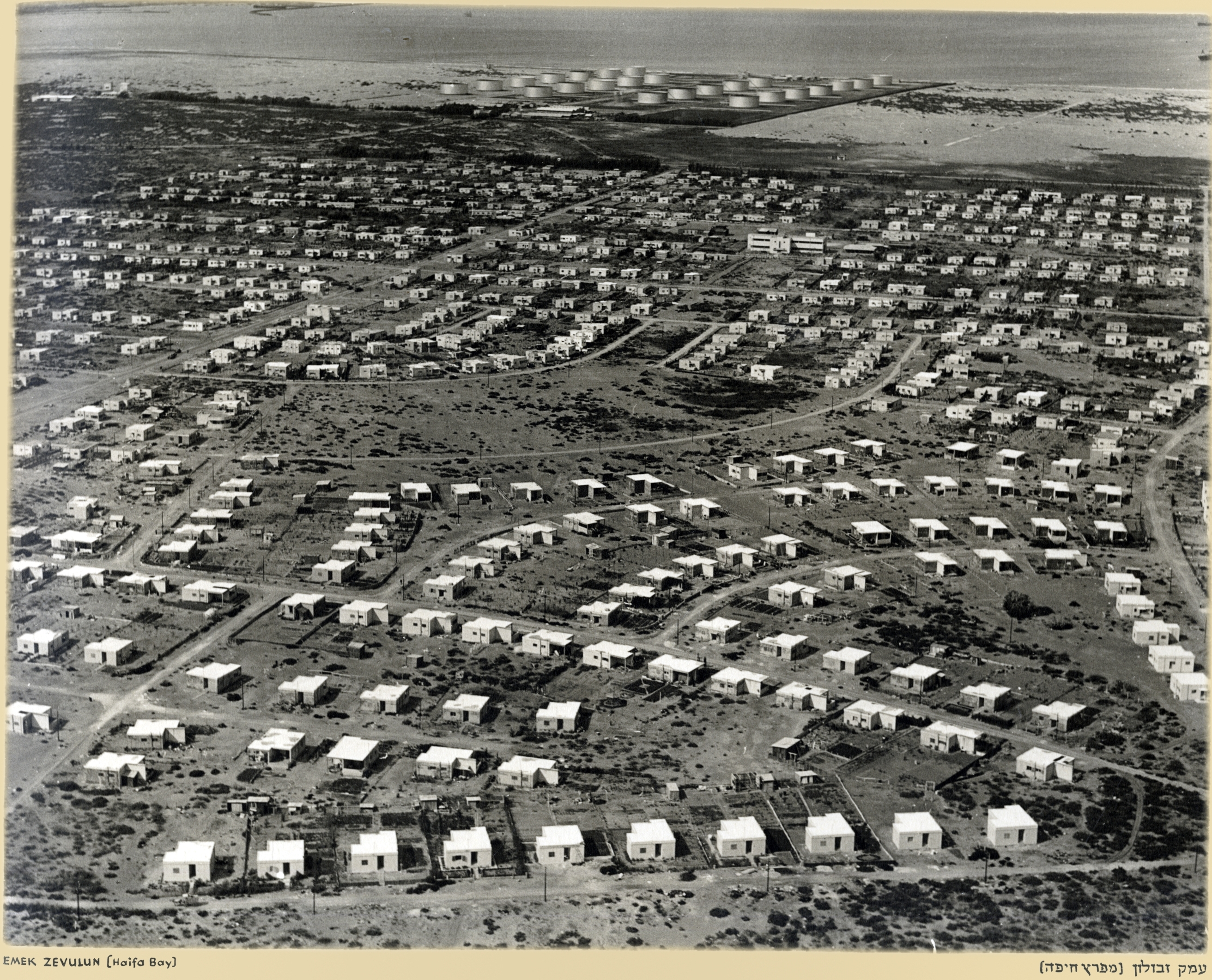 Z. Kluger. Erez Israel from the air - 1937-38